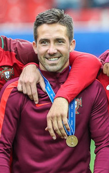 Portugal - Mexico, 2 Jul 2017